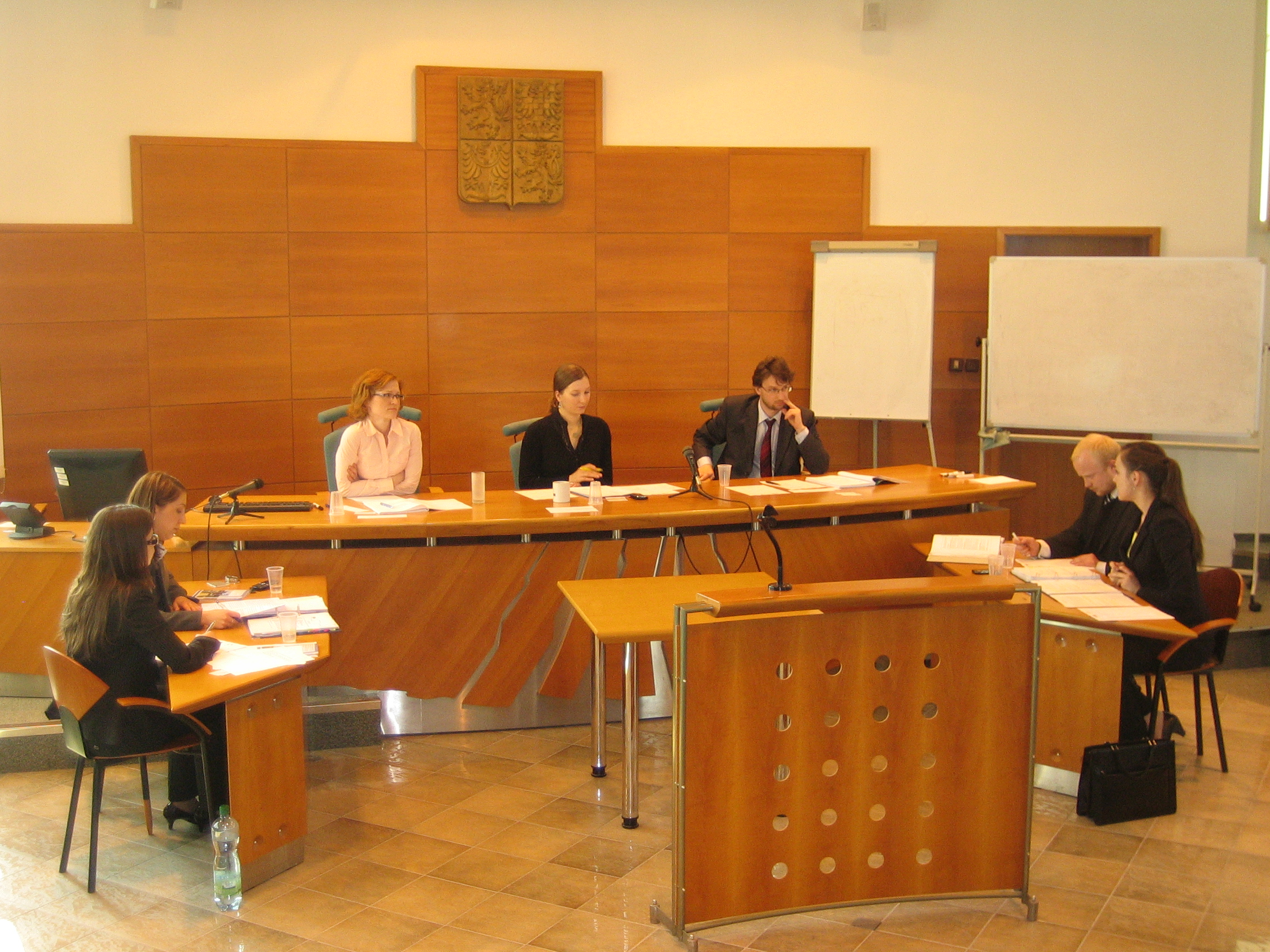 Willem C. Vis pre-moot at Palacký University of Olomouc Faculty of Law; University of Silesia v. Charles University